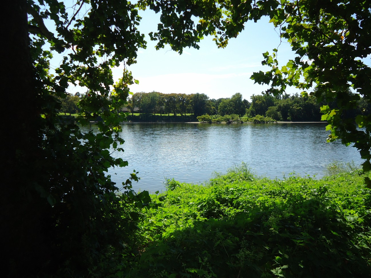 View of Delaware River where George Washington crossed. Looking towards Pennsylvania (far side of river) from the New Jersey side.